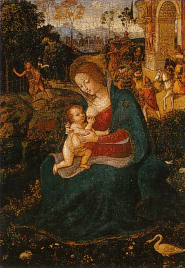 Pinturicchio, madonna del latte, 1492, 29,2x21,6 cm, houston, sarah campbell blaffer foundation